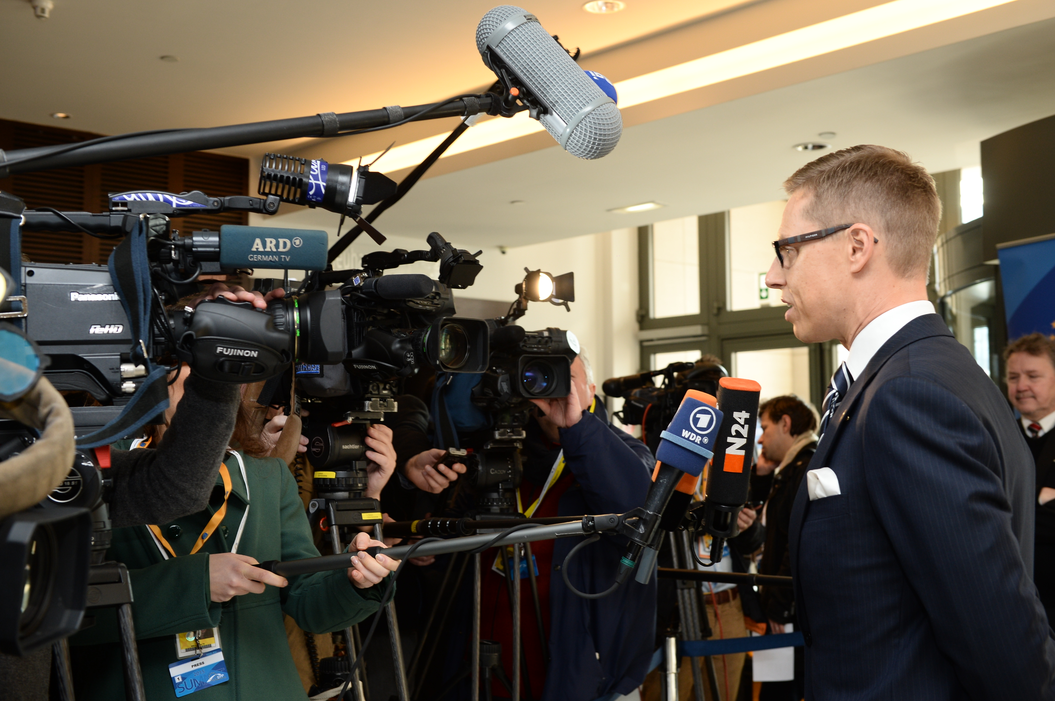 EPP Summit,Brussels; February 2015